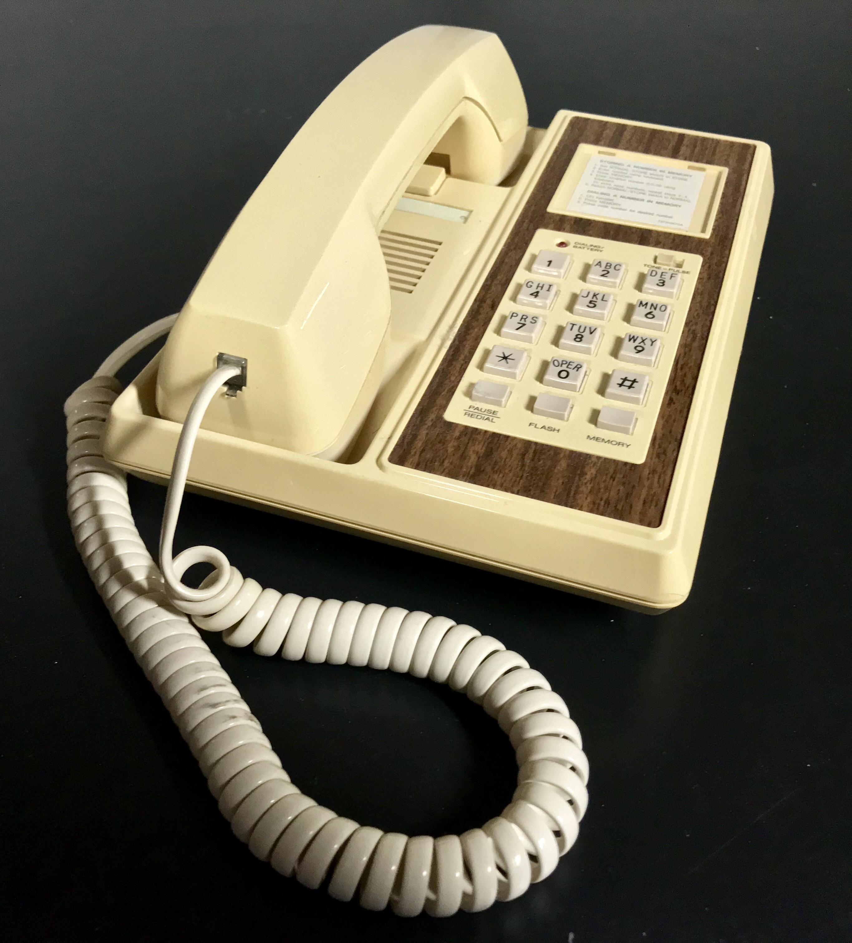 1986 RadioShack telephone in good/weird condition.